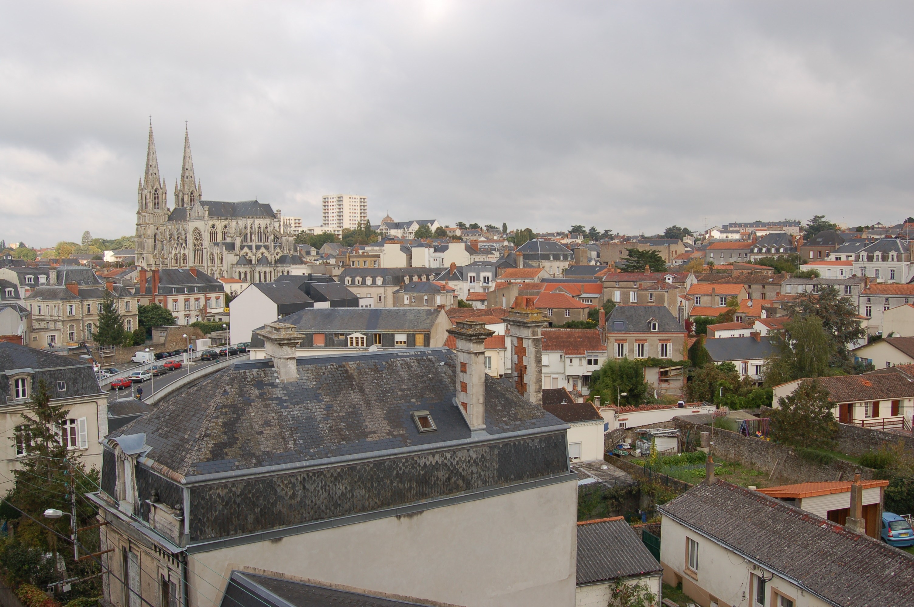 Cholet